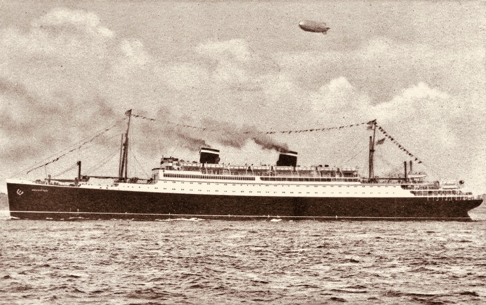 USS Los Angeles (ZR-3) flying overhead "S.S. Manhattan" of United States Line, New York City